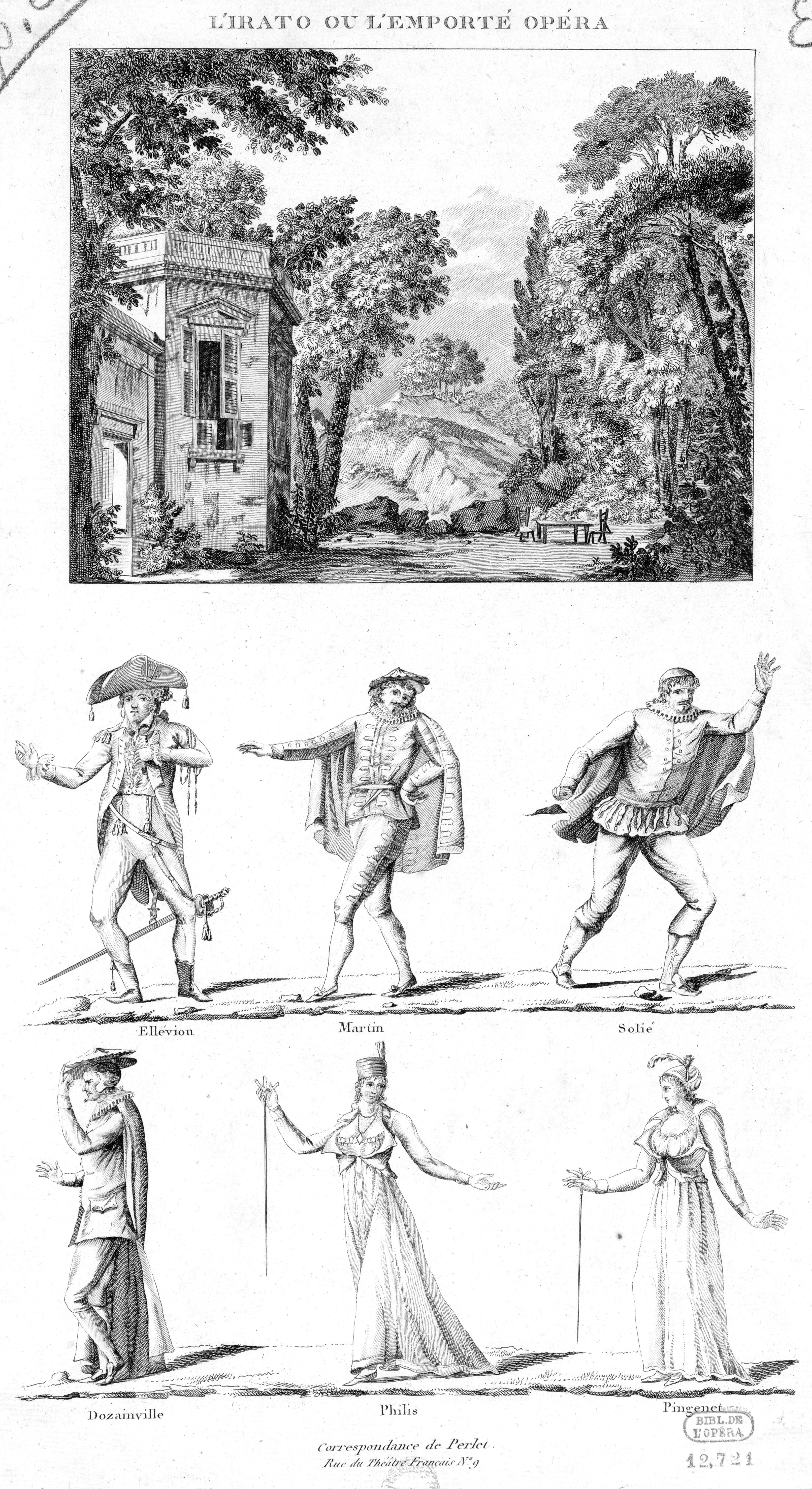 Press illustration of the set and costume designs for the 1-act opéra-comique L'irato by Méhul